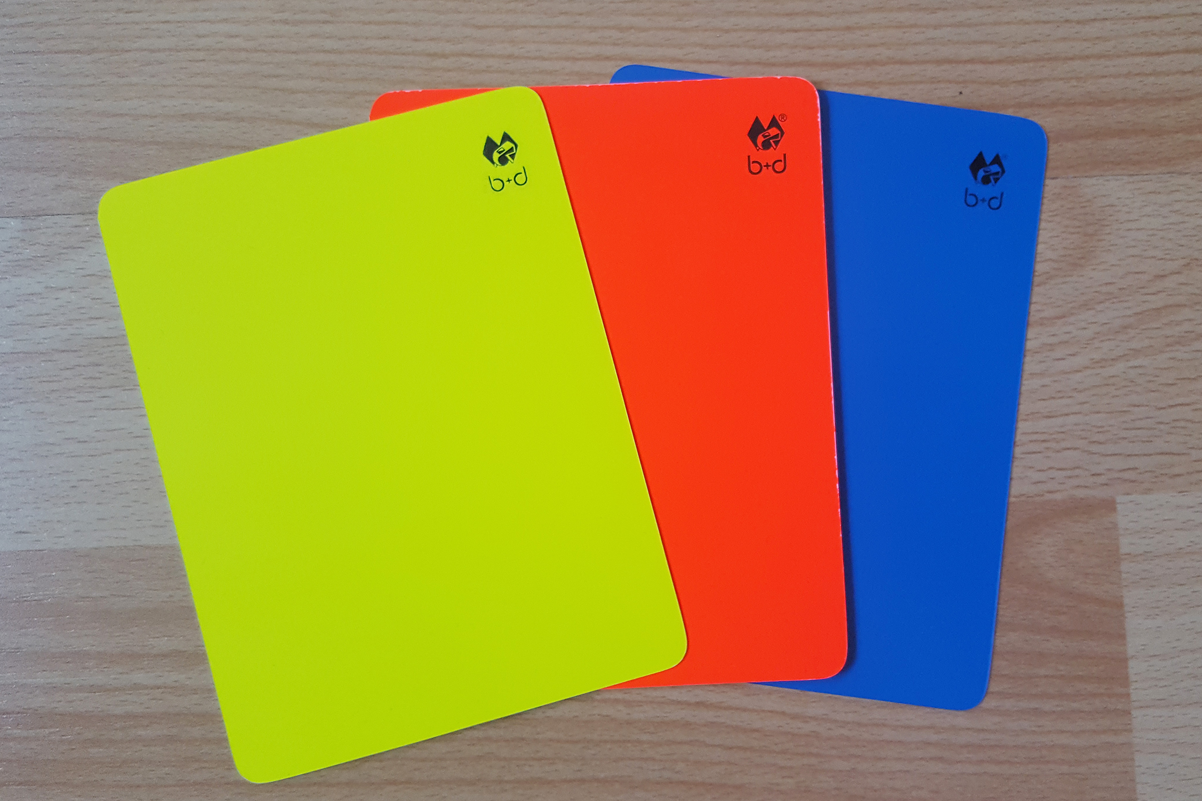 Yellow, red and blue card